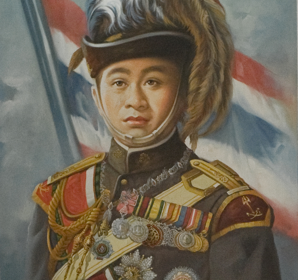 Painting of King Vajiravudh as a General of the Wild Tiger Corps. Cropped from File:นายกรัฐมนตรี_เป็นประธานเปิดงานชุมนุมลูกเสือคาทอลิกโลก_-_Flickr_-_Abhisit_Vejjajiva_(31).jpg.